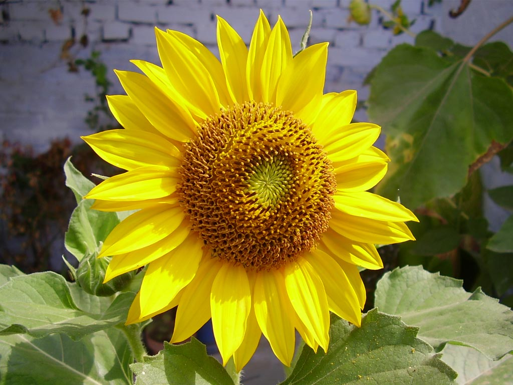 Hi, I am Wajid from Pakistan. This picture is captured by me. This picture is captured on June 28, 2005, 9:22:02 AM and modified on December 04, 2006, 12:11:02 PM. - but